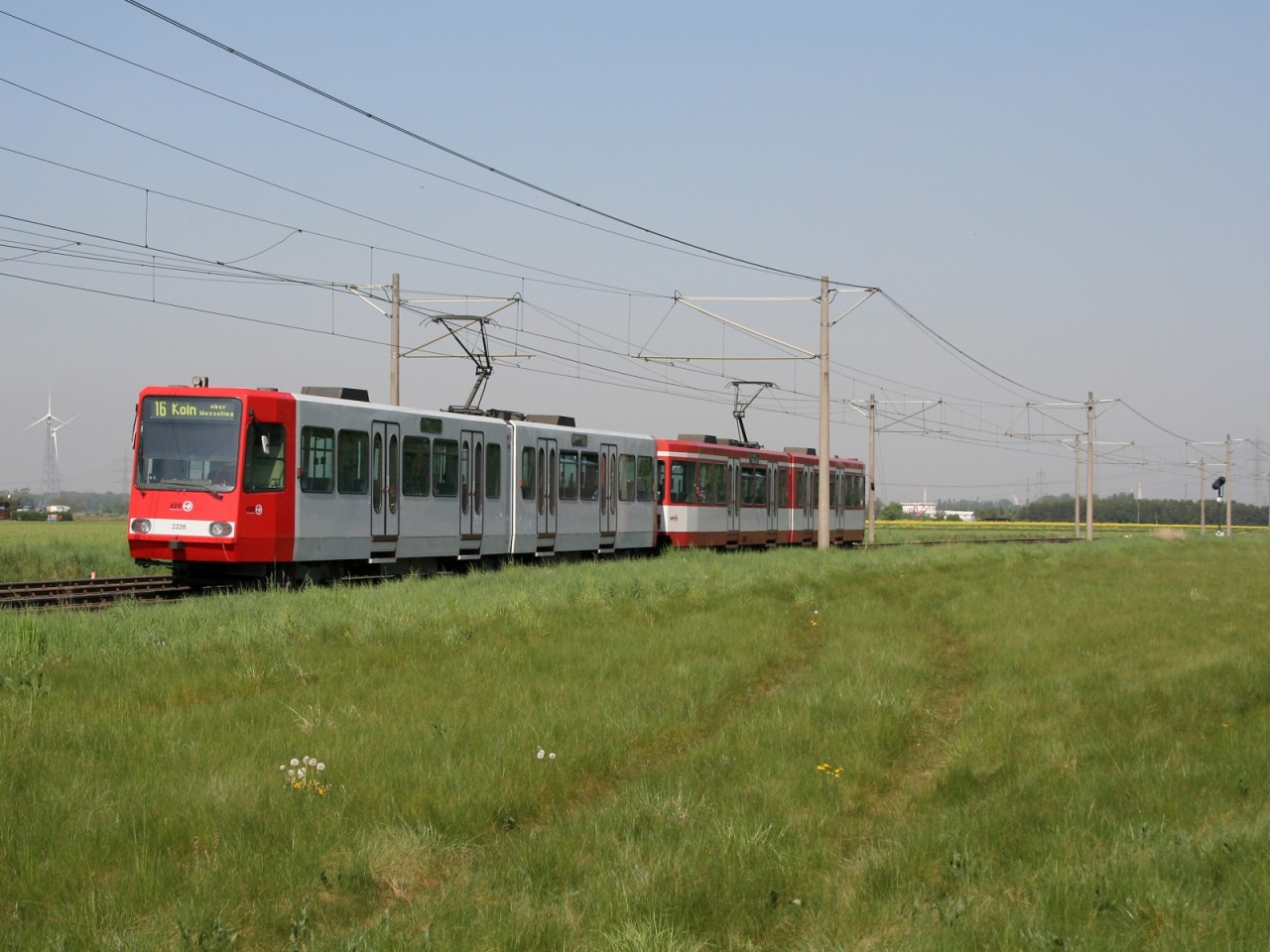 Cologne light rail train leaving the Uedorf station on the Rheinuferbahn line between Bonn and Cologne